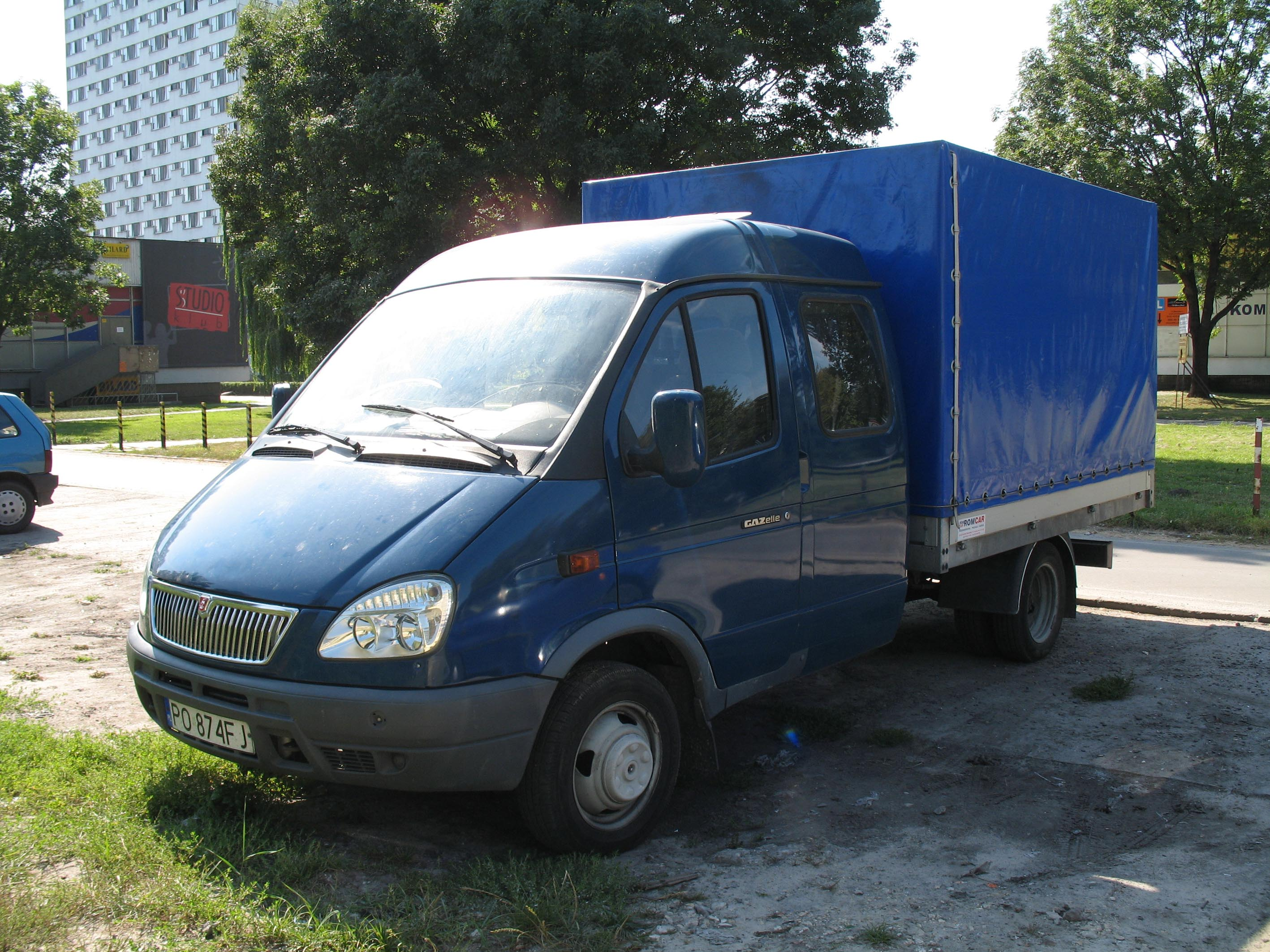 GAZelle in Kraków, Poland.